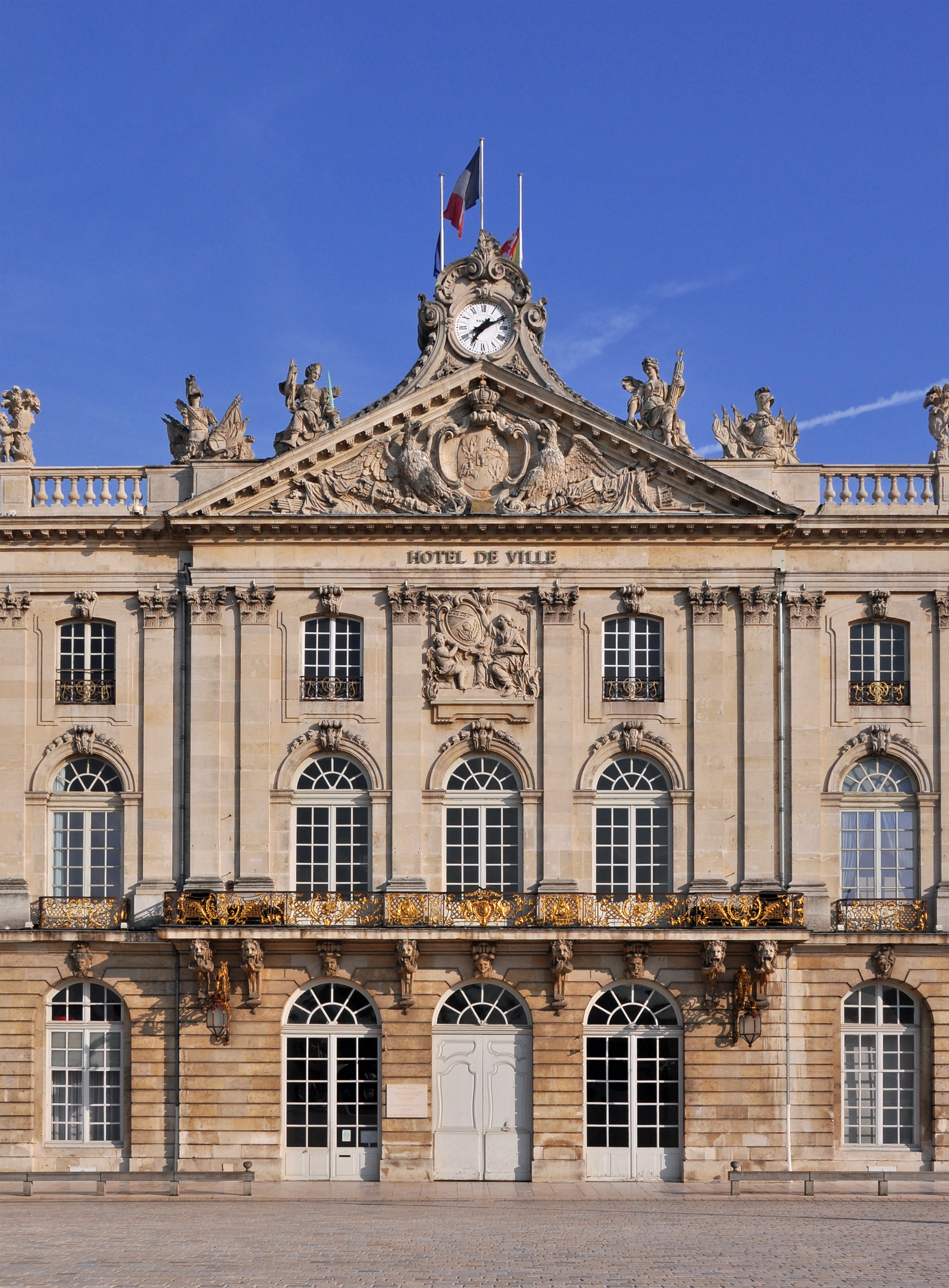 Nancy (France): town hall